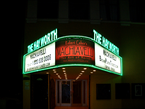 Marquee for Machiavelli, Field Station Theatre, at the Hayworth Theatre, Los Angeles, August, 2006.